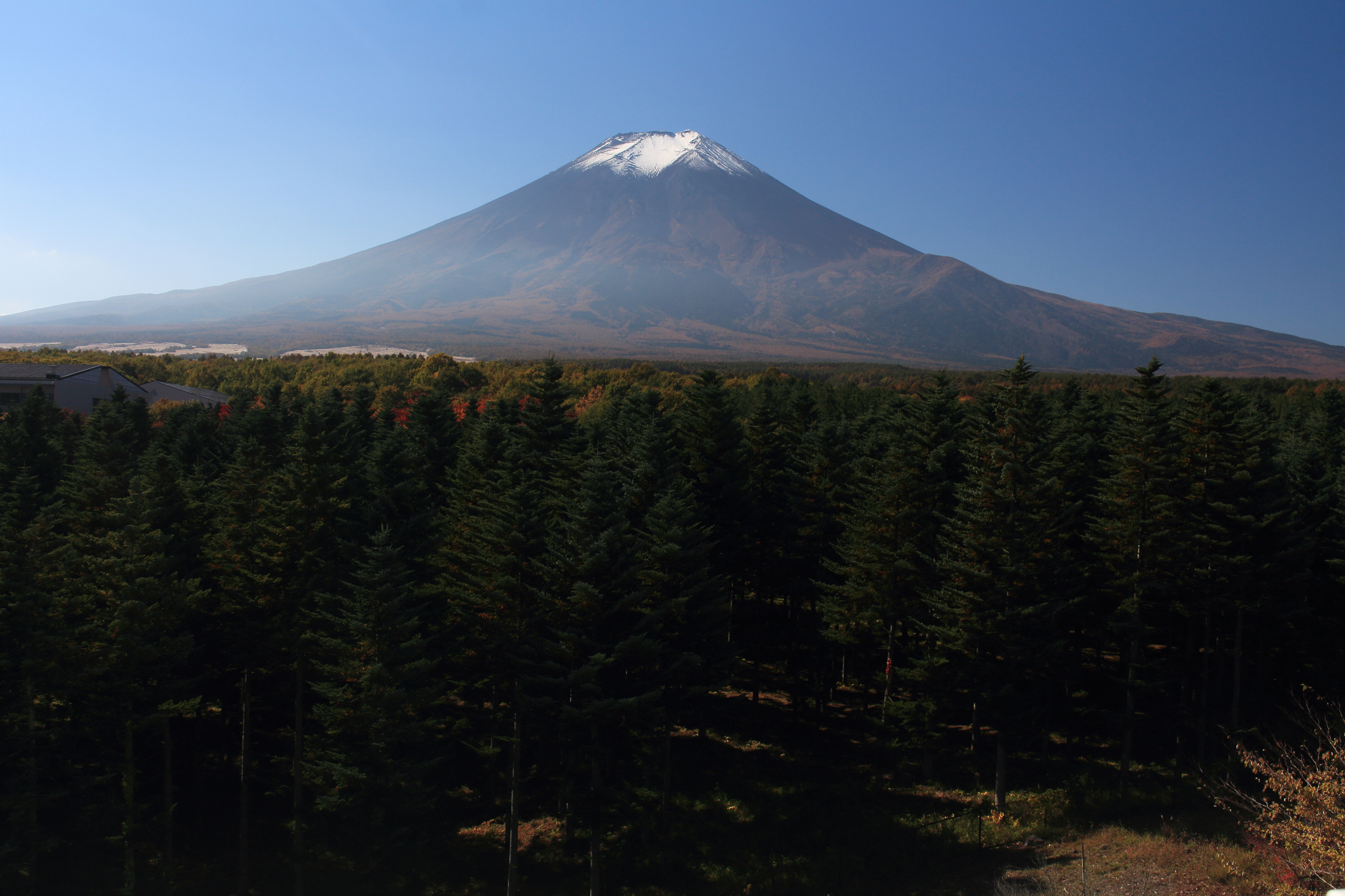 Mount Fuji from Radar Dome Museum in Fujiyoshida, yamanashi prefecture, Japan.